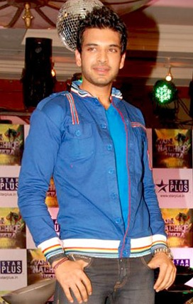 Karan Kundra at the launch of Zara Nachke Dikha == karan kundra ==